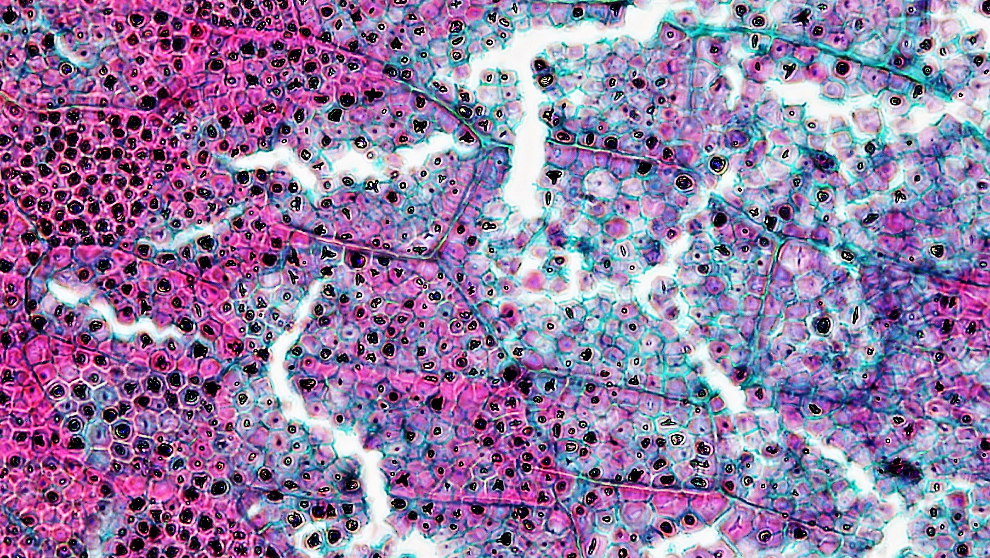 cross section: Zea may embryo common name: corn grain magnification: 200x by phase contrast Triarch quadruple stain Berkshire Community College Bioscience Image Library